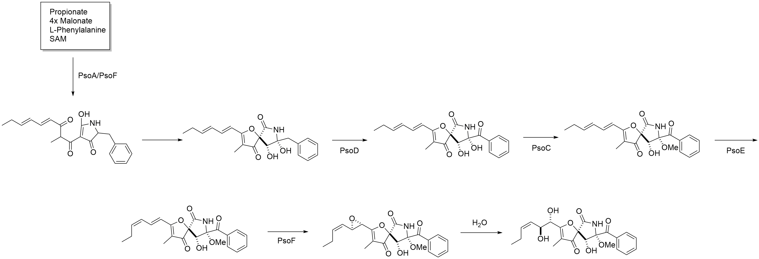 Proposed biosynthesis of Pseurotin A